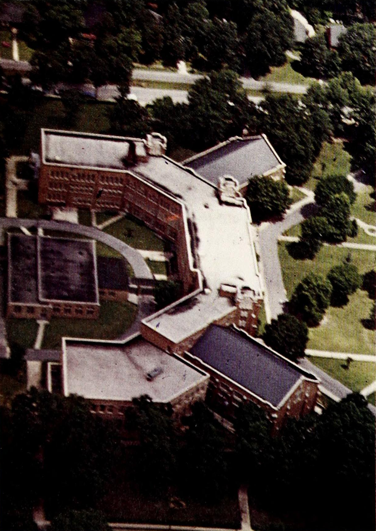 A photo of High Point High School from the 1962 edition of the Pemican, the school's yearbook.